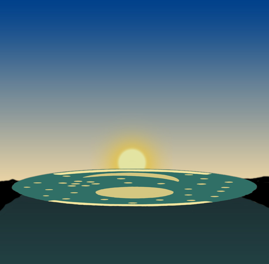 Nebra skydisc, position of the arcs in spring and fall.